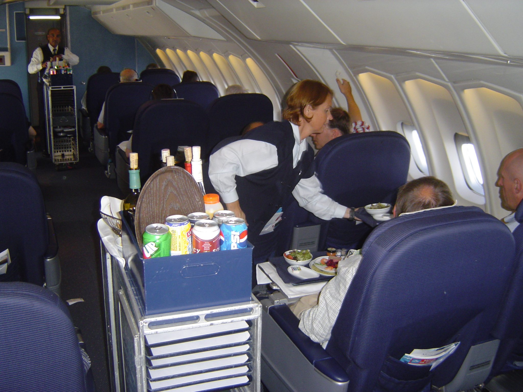 inflight service by a stewardess